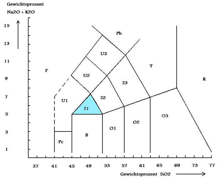 TAS-Diagram showing hawaiite field in blue